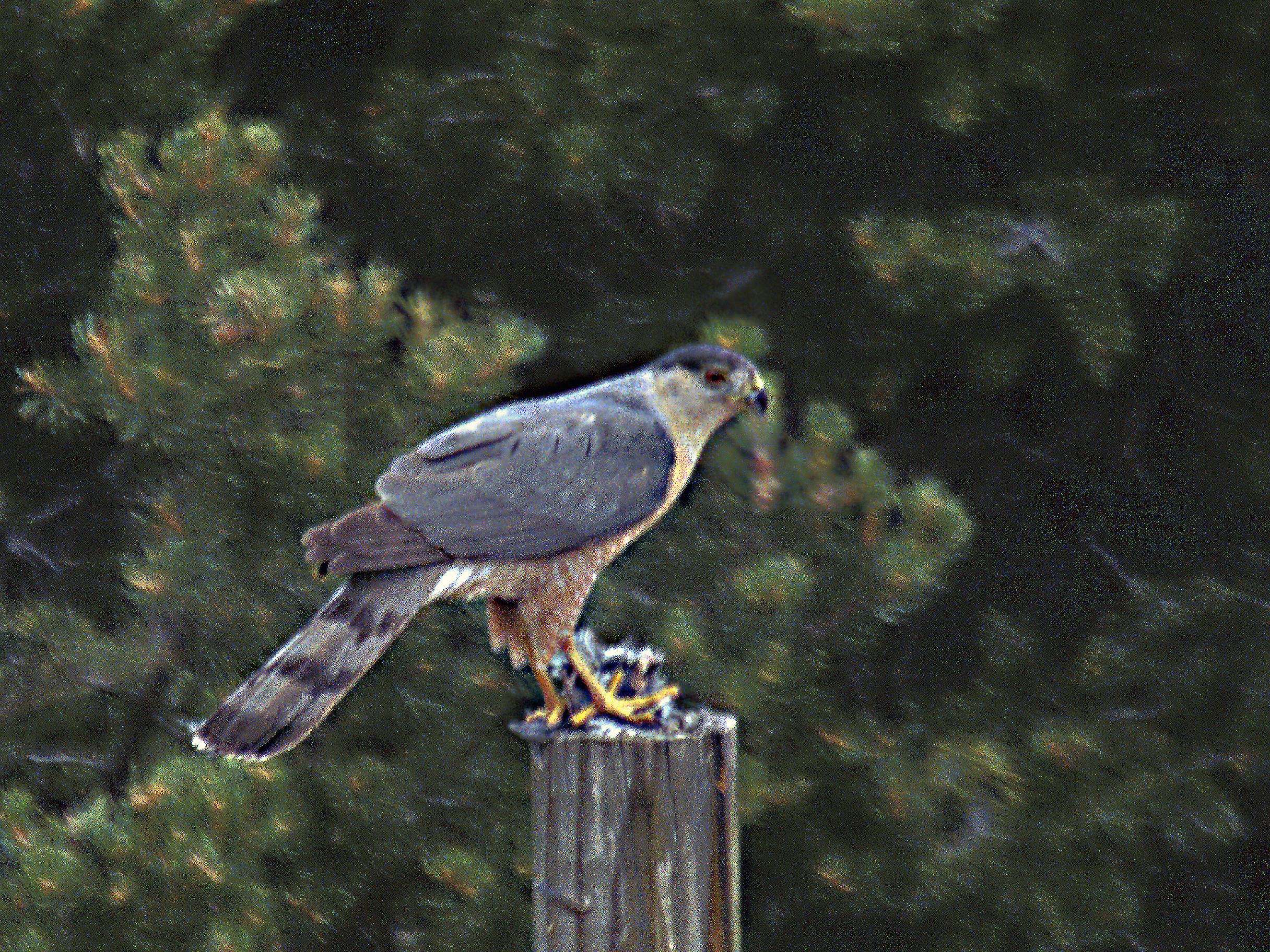 Put out a feeder and you may also end up feeding bird predators.